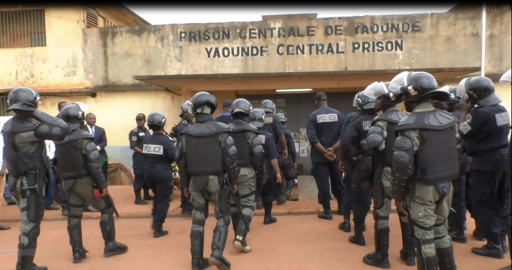 Deployment of the police at the Kondengui Central Prison, Yaounde, Cameroon, July 23, 2019.